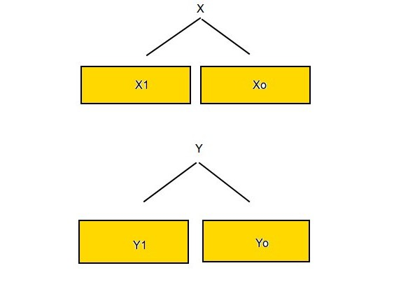 in Karatsuba algorithm divide number s to halved size.